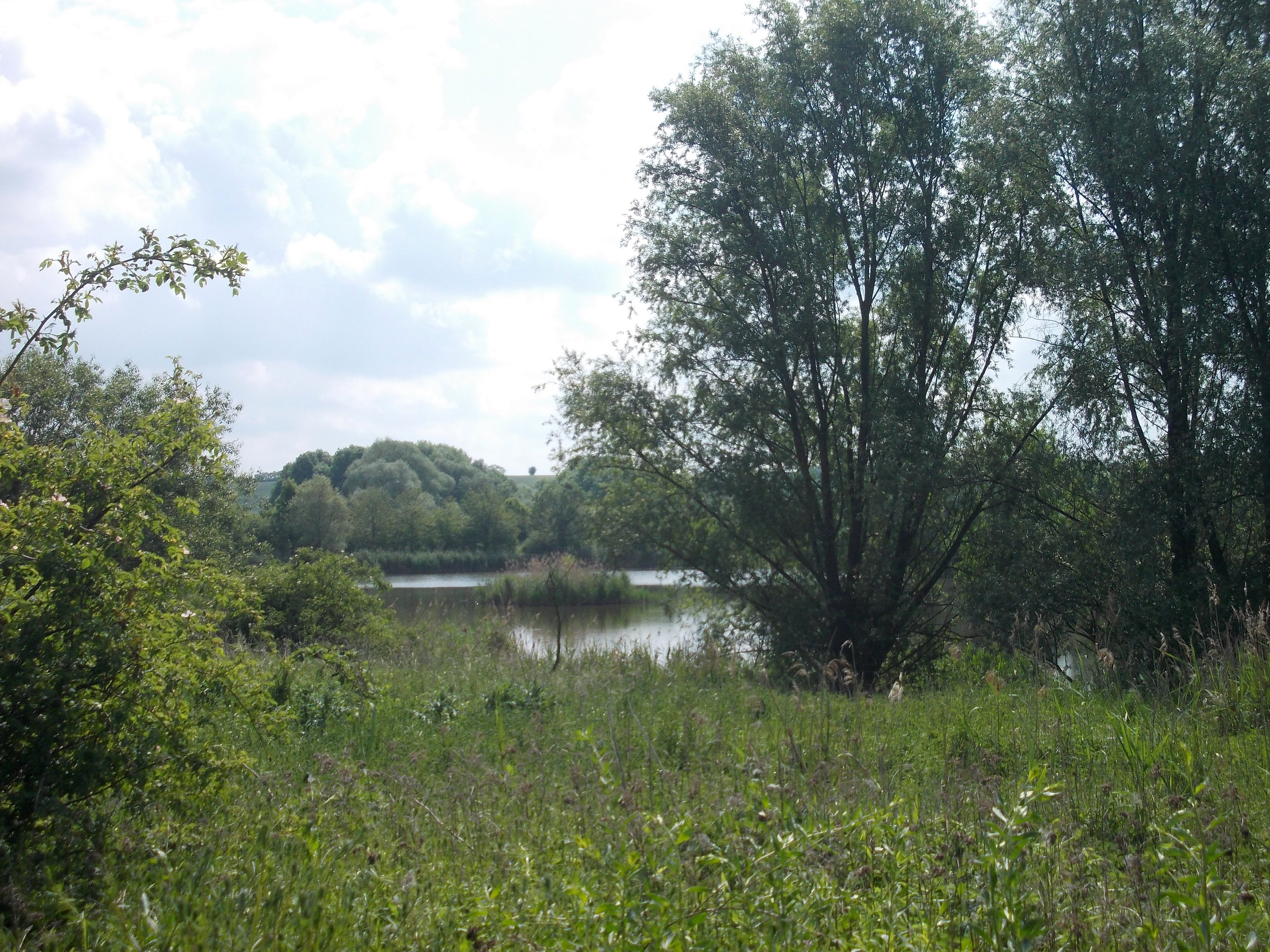 Pond in the nature reserve "Salzatal zwischen Langenbogen und Köllme" (district: Saalekreis, Saxony-Anhalt)